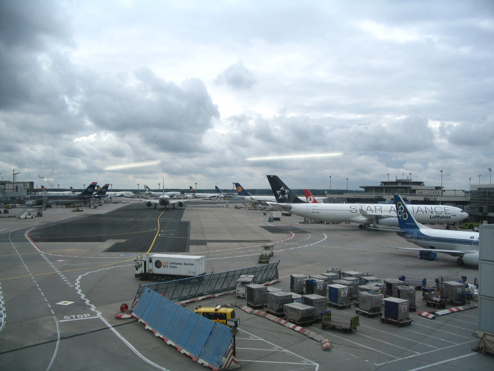 Several aircraft at Frankfurt International Airport